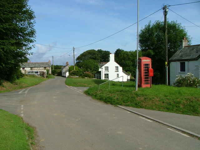 Trelash Village Centre. Trelash is the home of the Tregida Smokehouse which provides smoked cornish delicacies to the Queen, Harrods etc